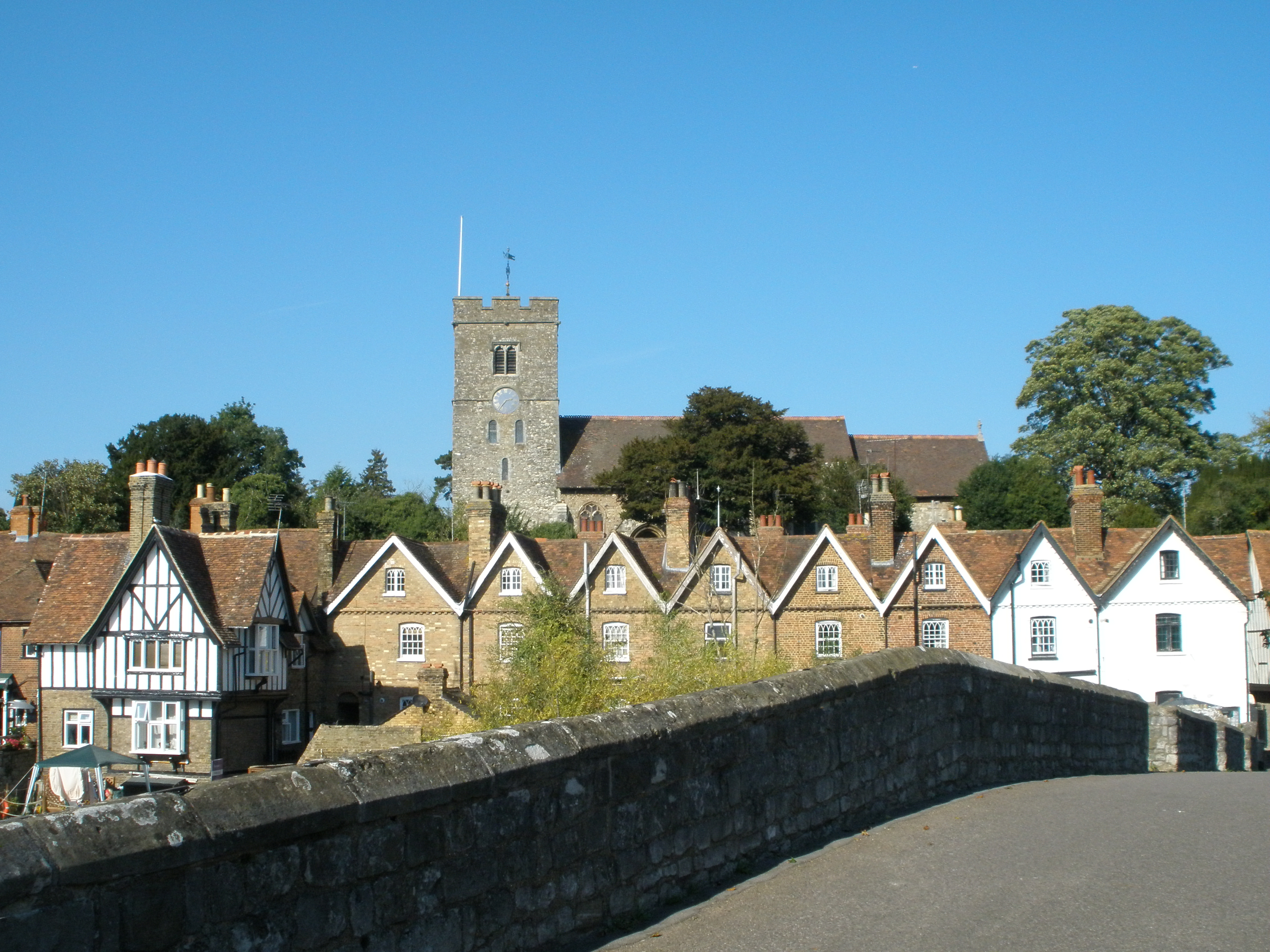 Old Aylesford village with the church of St Peter and St Paul in the background